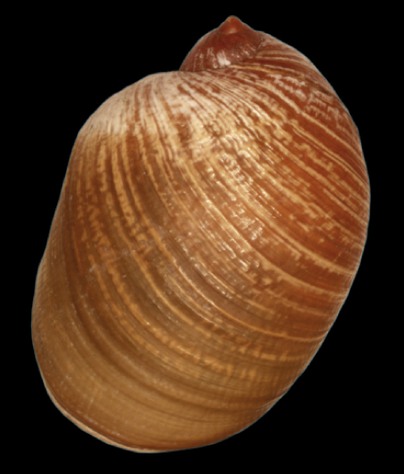 Photo of an abapertural view of the shell of Amphibulima patula dominicensis. Height of the shell is 27.4 mm.